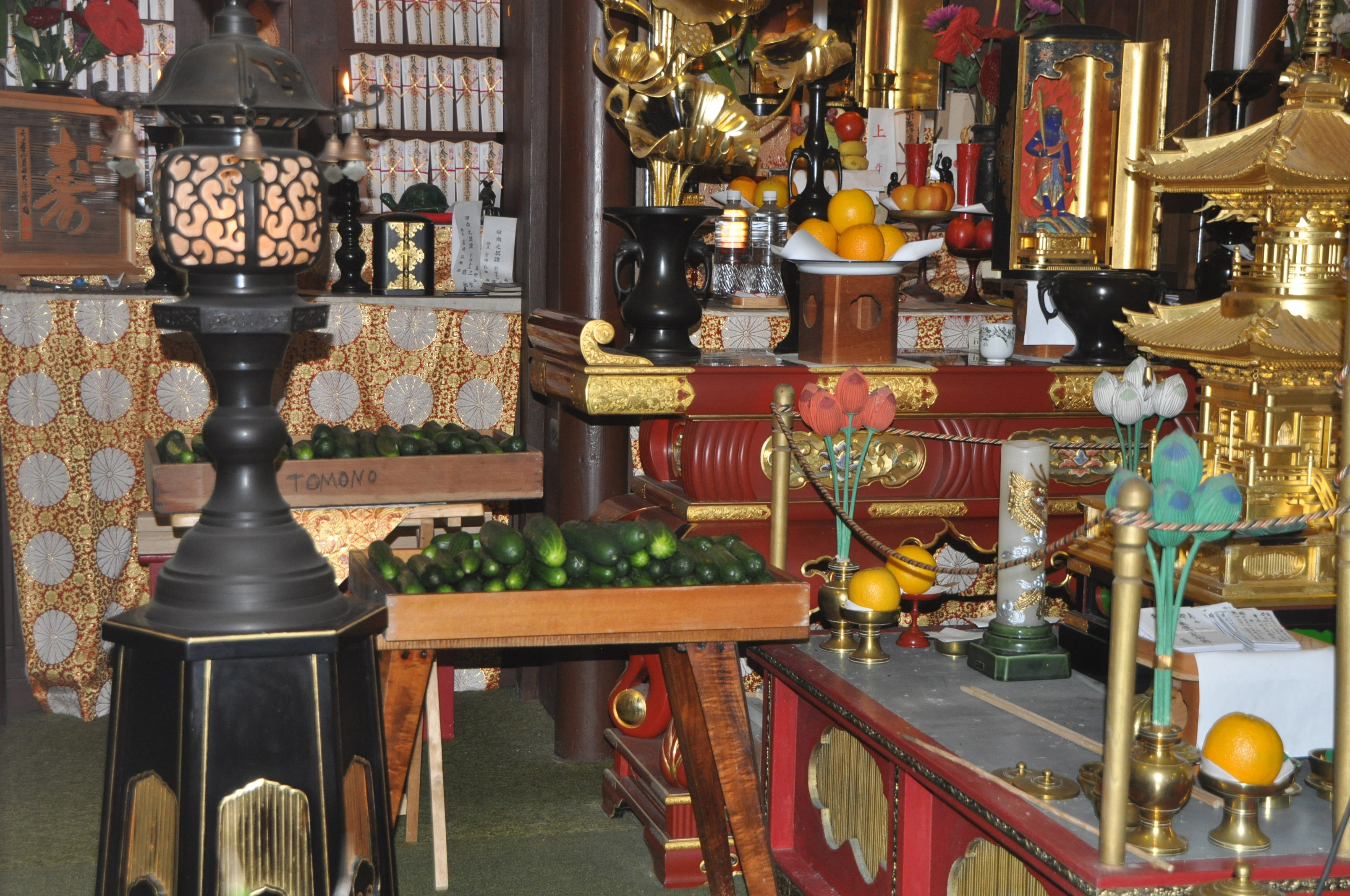 Cucumbers being blessed at a Shingon Buddhism ritual "Cucumber blessing", in Kailua-Kona, Hawaii, USA